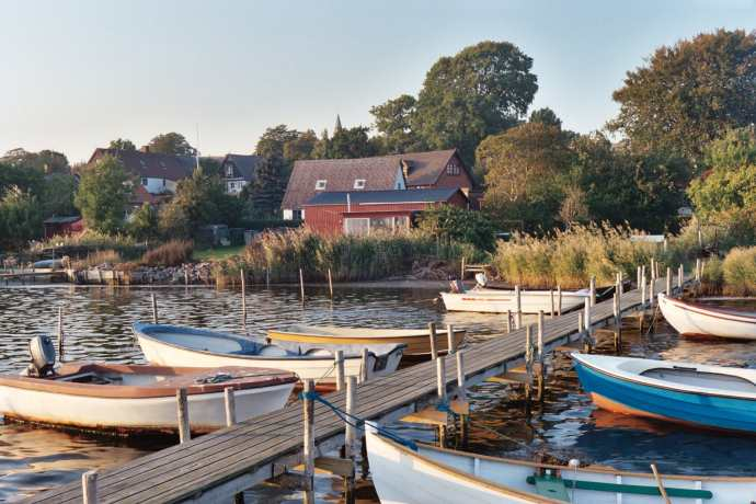 Nyord harbour at sunset time. Nyord is a very small island north of the small island Møn, Denmark